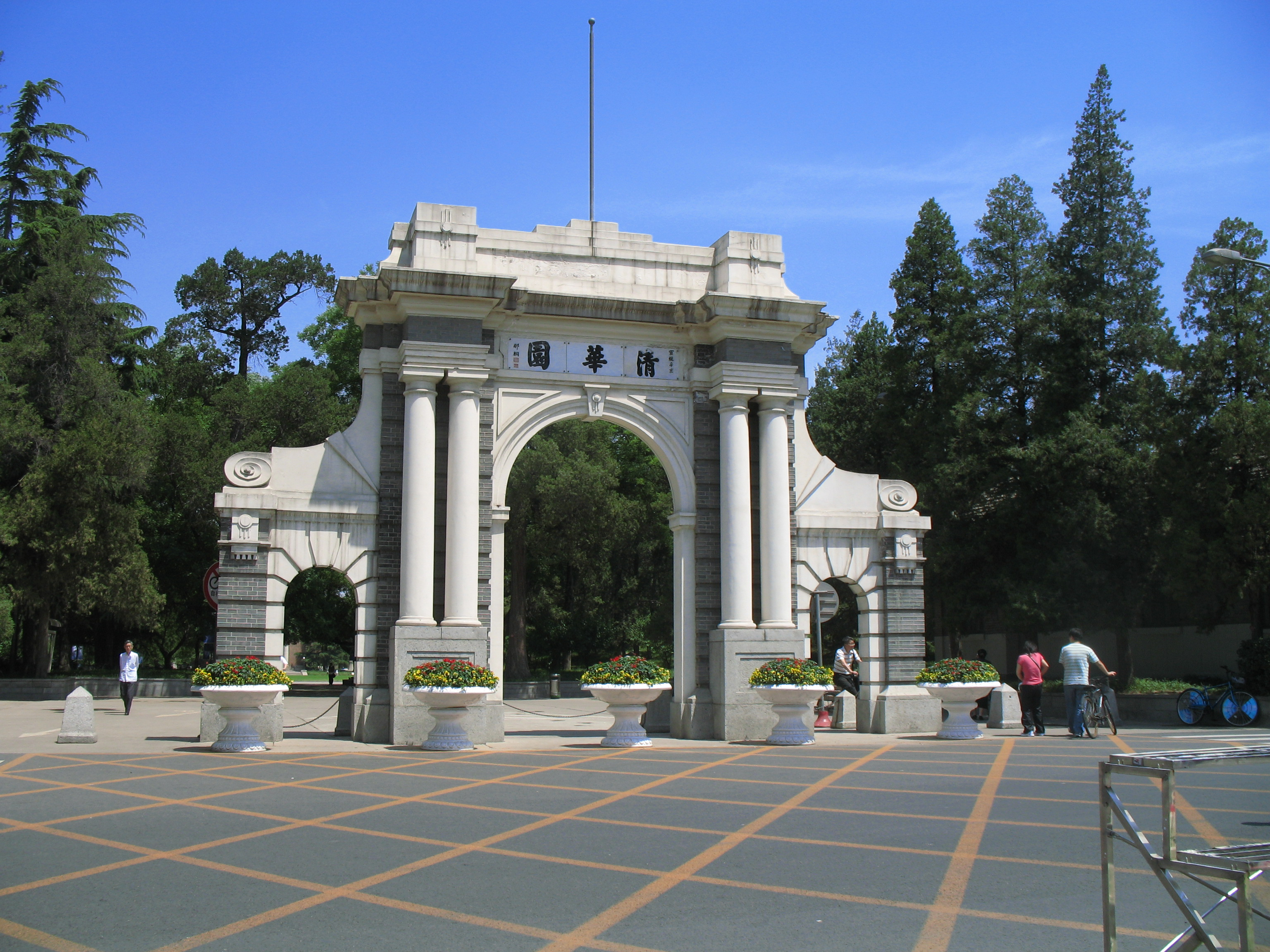 The Tsinghua University campus in Beijing, China.